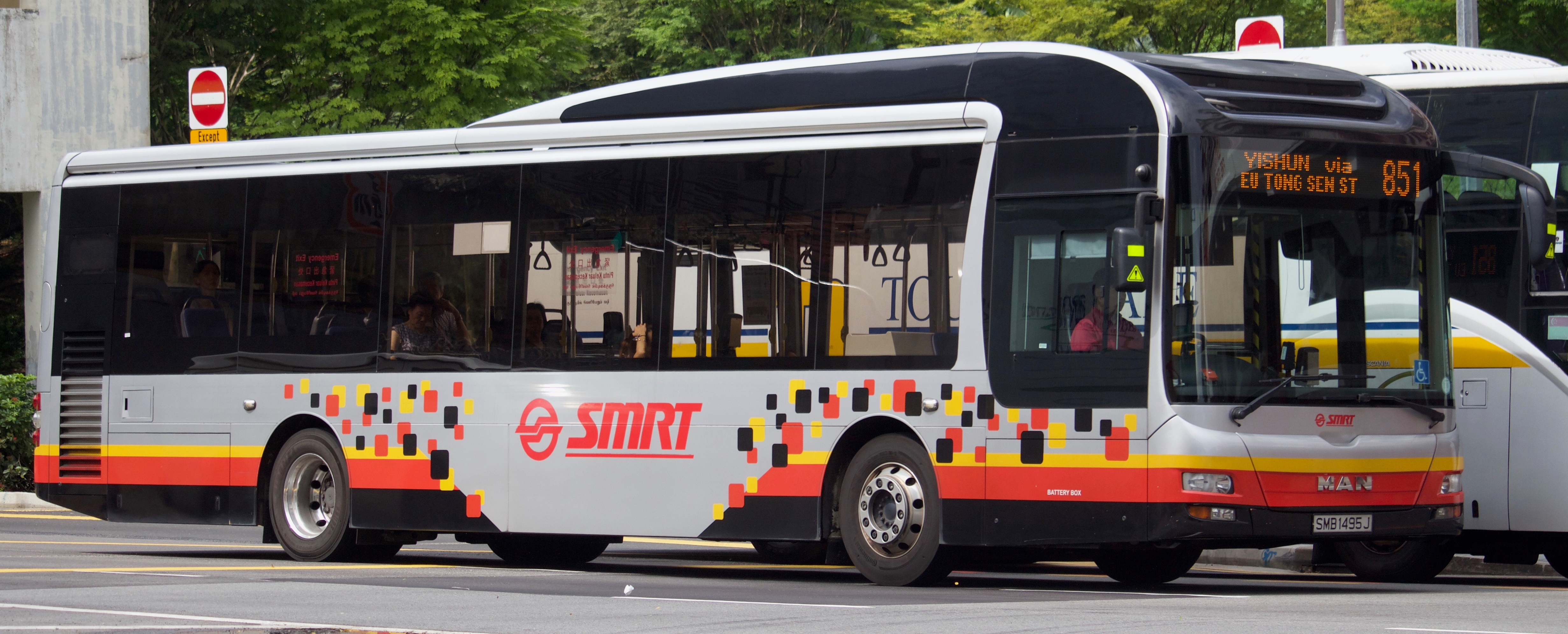 SMB1495J SMRT Buses MAN NL323F with MAN Lion’s City Hybrid (Gemilang Coachworks) bodywork. Route: 851 Yishun via Eu Tong Sen St Batch 3